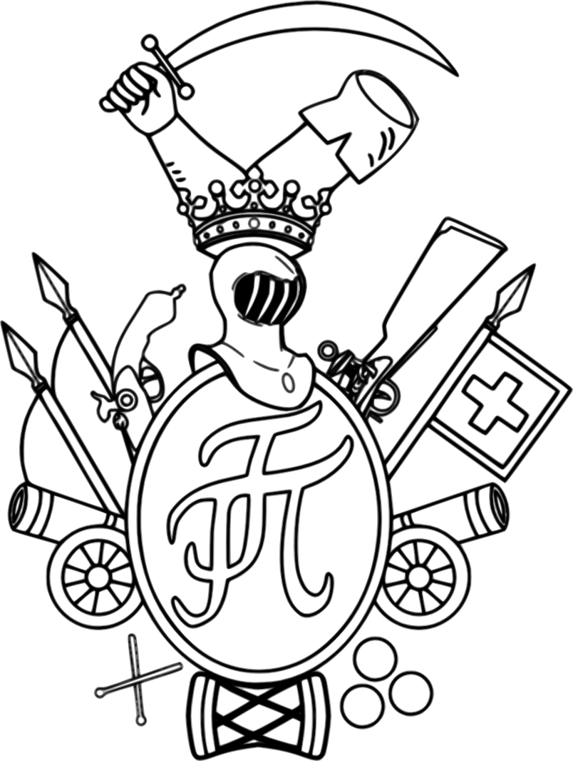 Coat of Arms of Karadjordje Petrovic, leader of the First Serbian Uprising, and founder of the Karadjordjevic dynasty.